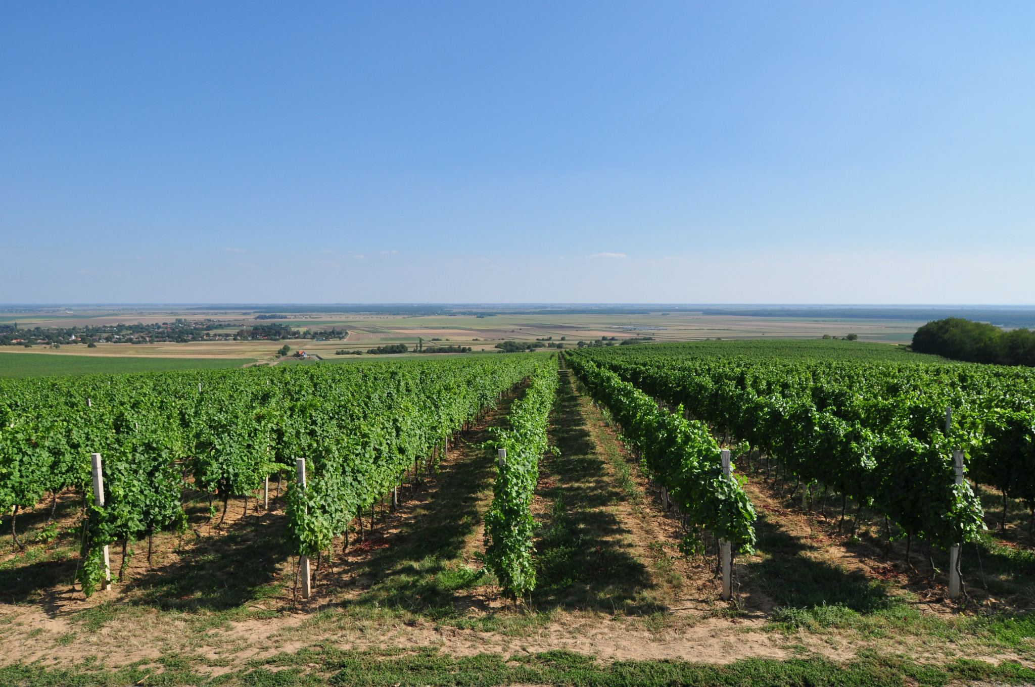 Along a wine road in Baranja (near Zmajevac)